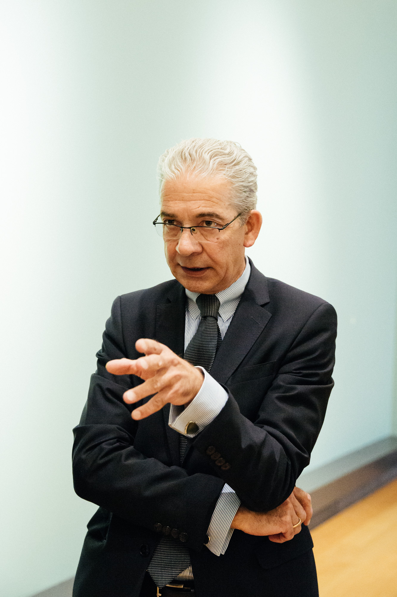 Bernd Wolfgang Lindemann